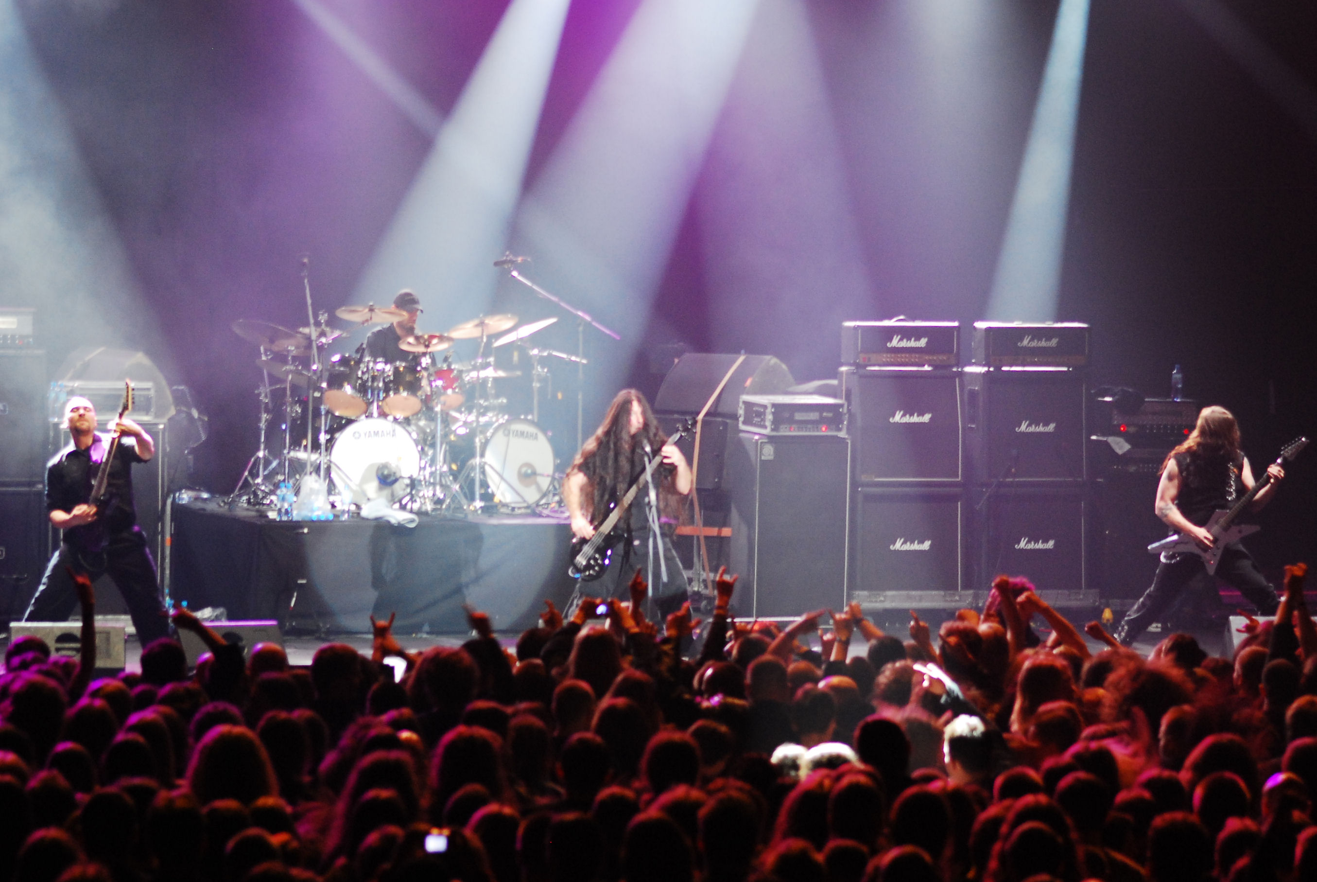 Immolation during Metalmania 2008 festival